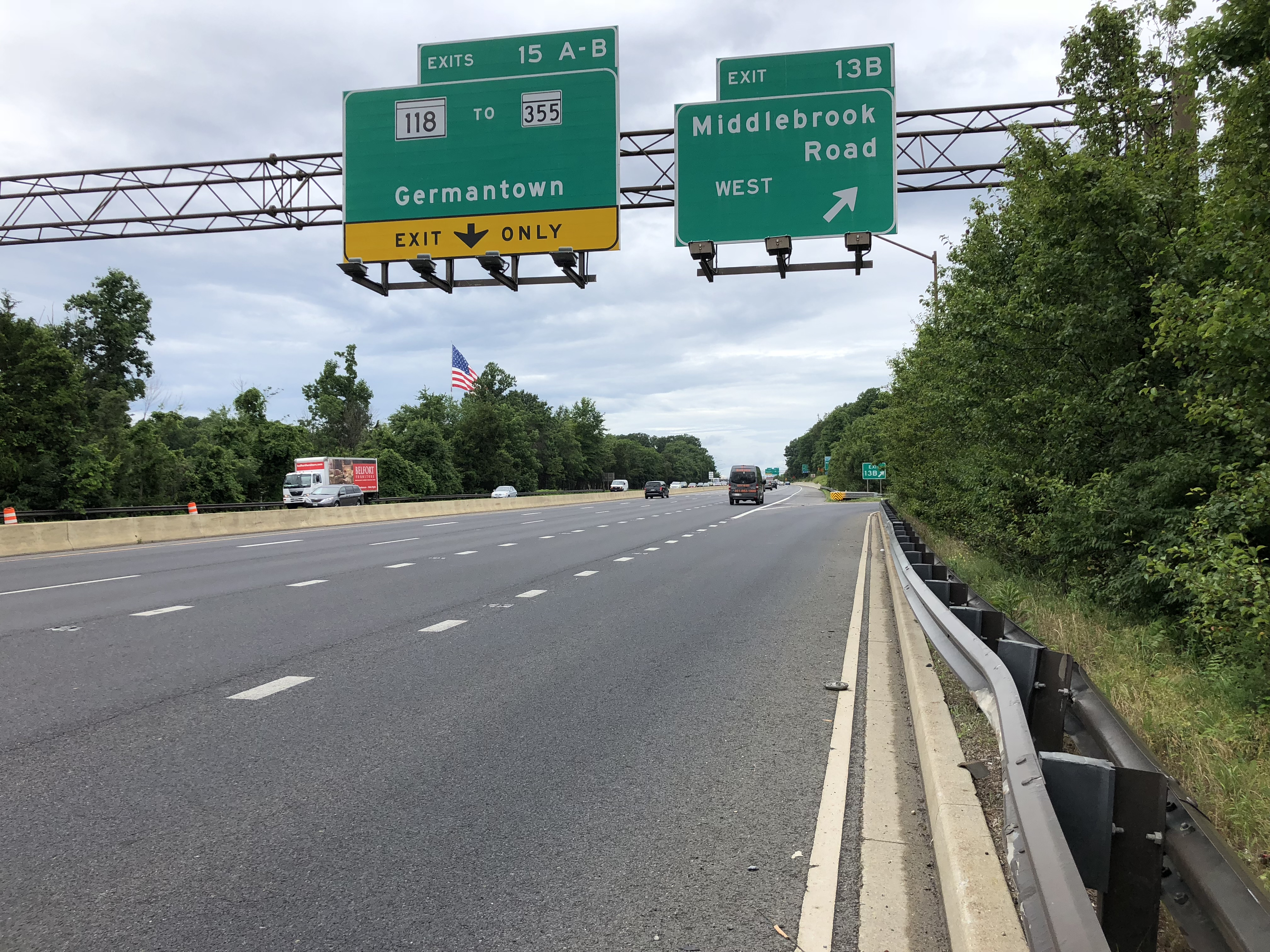 View north along Interstate 270 (Washington National Pike) at Exit 13B (Middlebrook Road WEST) in Germantown, Montgomery County, Maryland